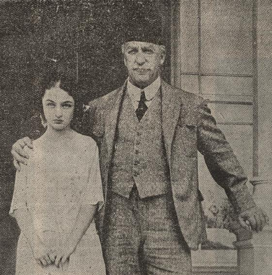 Press photograph in Transylvania's Cosânzeana review. Original caption: "The new caliph: Abdul Medjid, with daughter Princess Durri Chehvâr Sultana. The flight of Sultan Mehmed has allowed the Angora parliament to vote in a new caliph, with the goal of guarding over Islam. The selection fell on Abdul Medjid, a cousin of former Sultan Mehmed VI. The present Caliph's father was Sultan Abdul Aziz, killed in 1876. The new Caliph is a man with a vast culture, at age 54. He enjoys great sympathy in Turkey and was elected caliph with virtualy the totality of ballots. He is a great friend of France. His daughter, Princess Durri Chehvâr Sultana (Sovereign Pearl) is merely 13 years of age, this being the reason why she can be seen without a veil. The Koran does not impose the veil at this age."